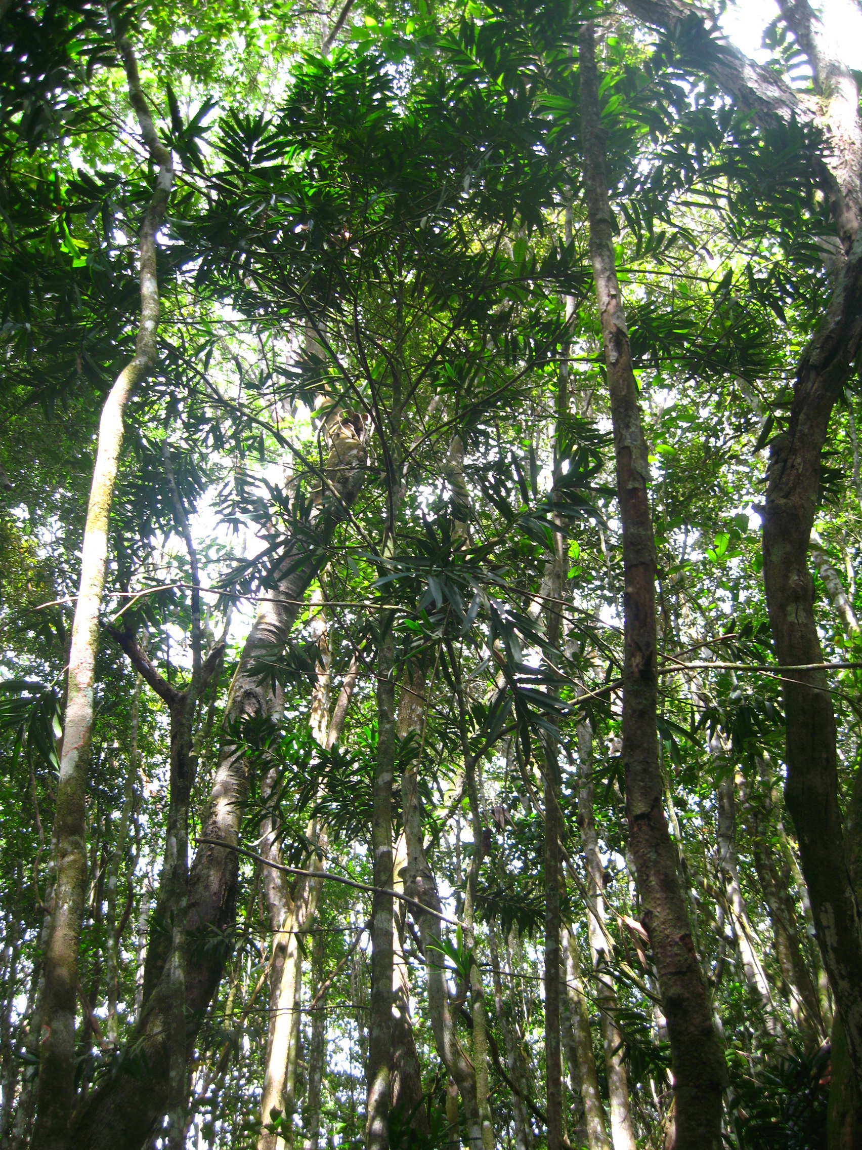 Image of an adult podocarpus sellowii (center) in a forest near the town of Pacoti (Baturité Mountains - State of Ceará - Brazil).